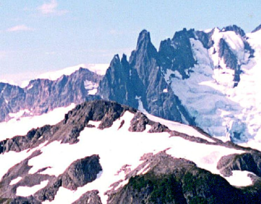 Nooksack Tower on Mount Shuksan as seen from Hannegan Peak. North Cascades.